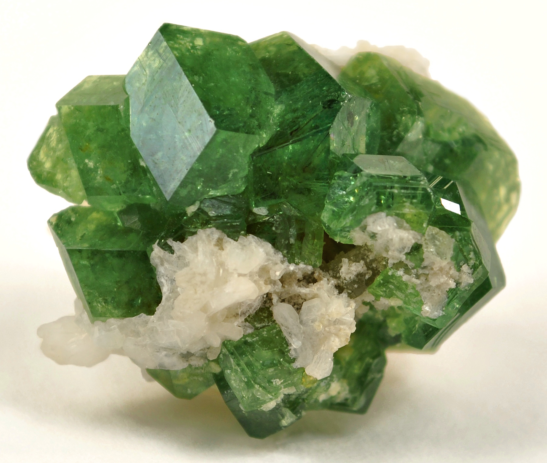 Andradite, Stilbite-Ca Locality: Antetezambato (Tetezambato), Ambanja District, Diana (Northern) Region, Antsiranana Province, Madagascar (Locality at ) Size: miniature, 3.2 x 2.6 x 2.4 cm Andradite var. Demantoid garnet with Stilbite A cluster of glassy and gemmy, brilliant green, demantoid crystals has grown on and with an ivory colored matrix of stilbite crystals, to 5 mm in length. The largest demantoid is 1 cm in length. This is an unbelievable melding of stilbite and demantoid in associatio - you don't see that from anywhere else I am aware of (nor is Dr. Pezzotta) and it seems another element of the geological puzzle that produced this locality. Most stilbite is micro, and very few specimens of any quality host both good demantoid and stilbite together. This is a superb, showy miniature, one of only 3 such association pieces I obtained. Even without the stilbite, though, the garnet is of very high quality, color intensity, and crystal size for the find. Although small overall, this is hands down one of my favorites in the lot.